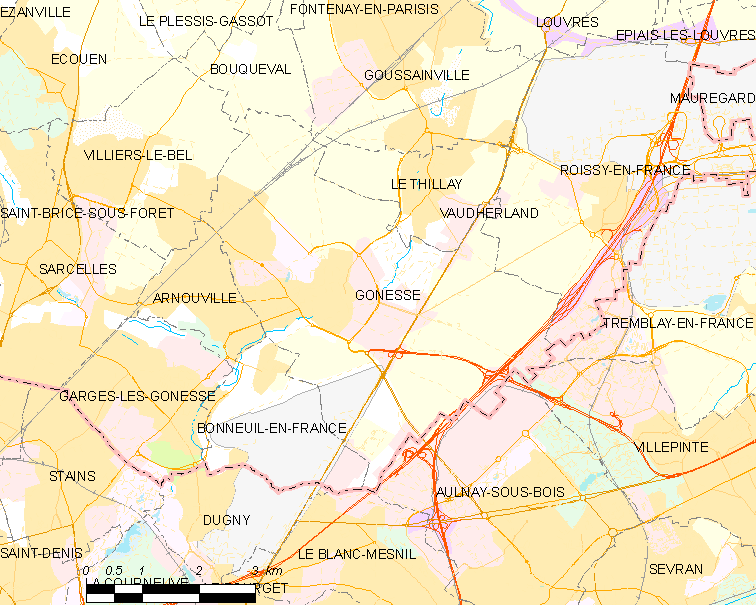 Map of French municipality Gonesse